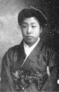 A young Japanese woman, wearing a dark kimono with white at the neckline.